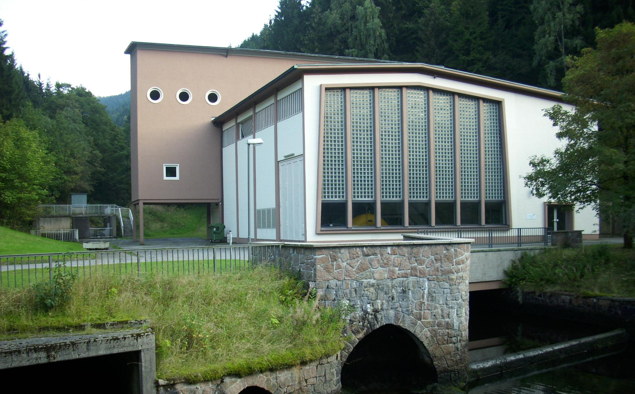 The electricity generating station in Romkerhall on the River Oker in the Harz mountains of Germany